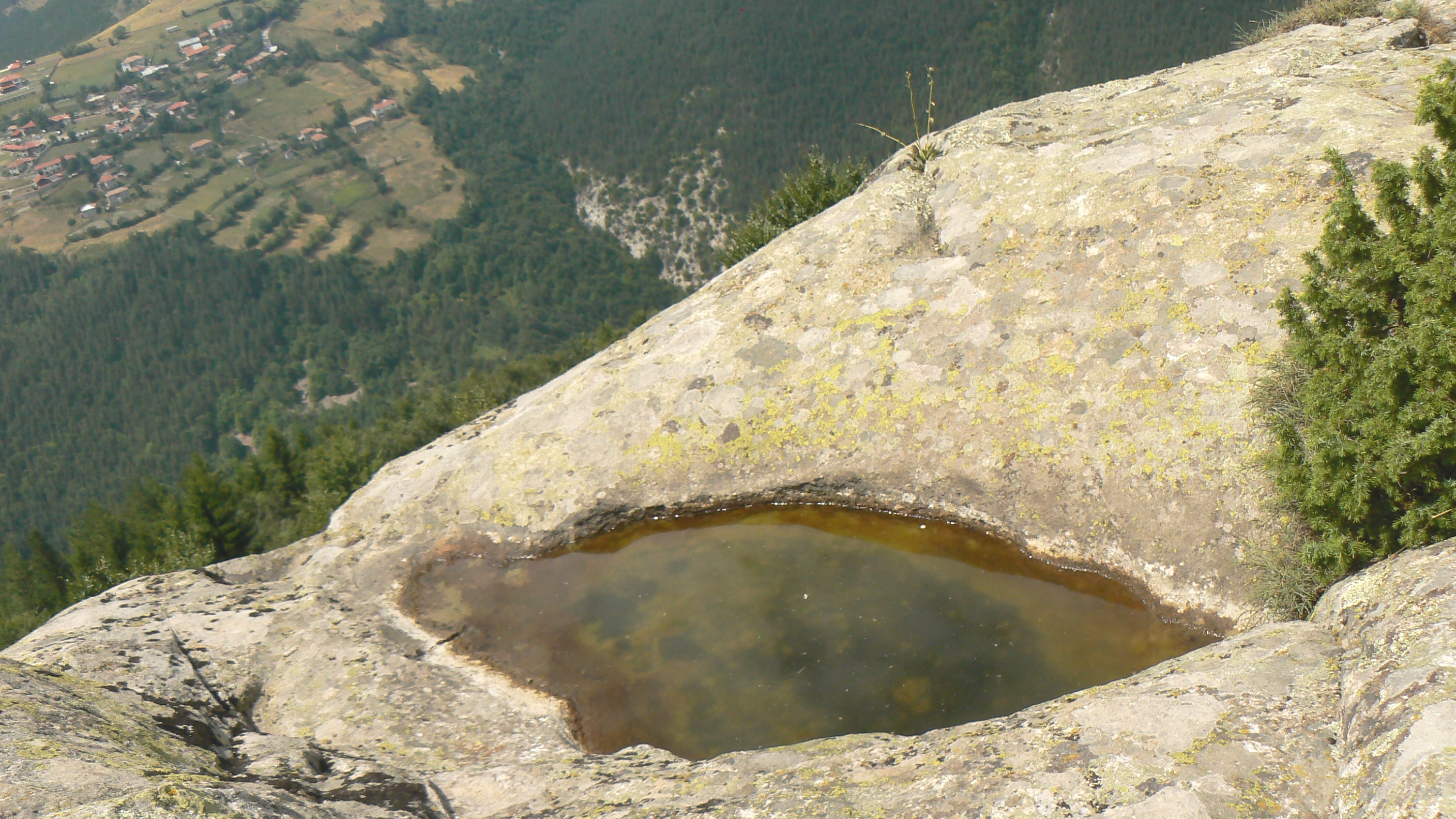 Village Vrata, as seen from the plateau of Belintash. Rhodope mountain, Bulgaria